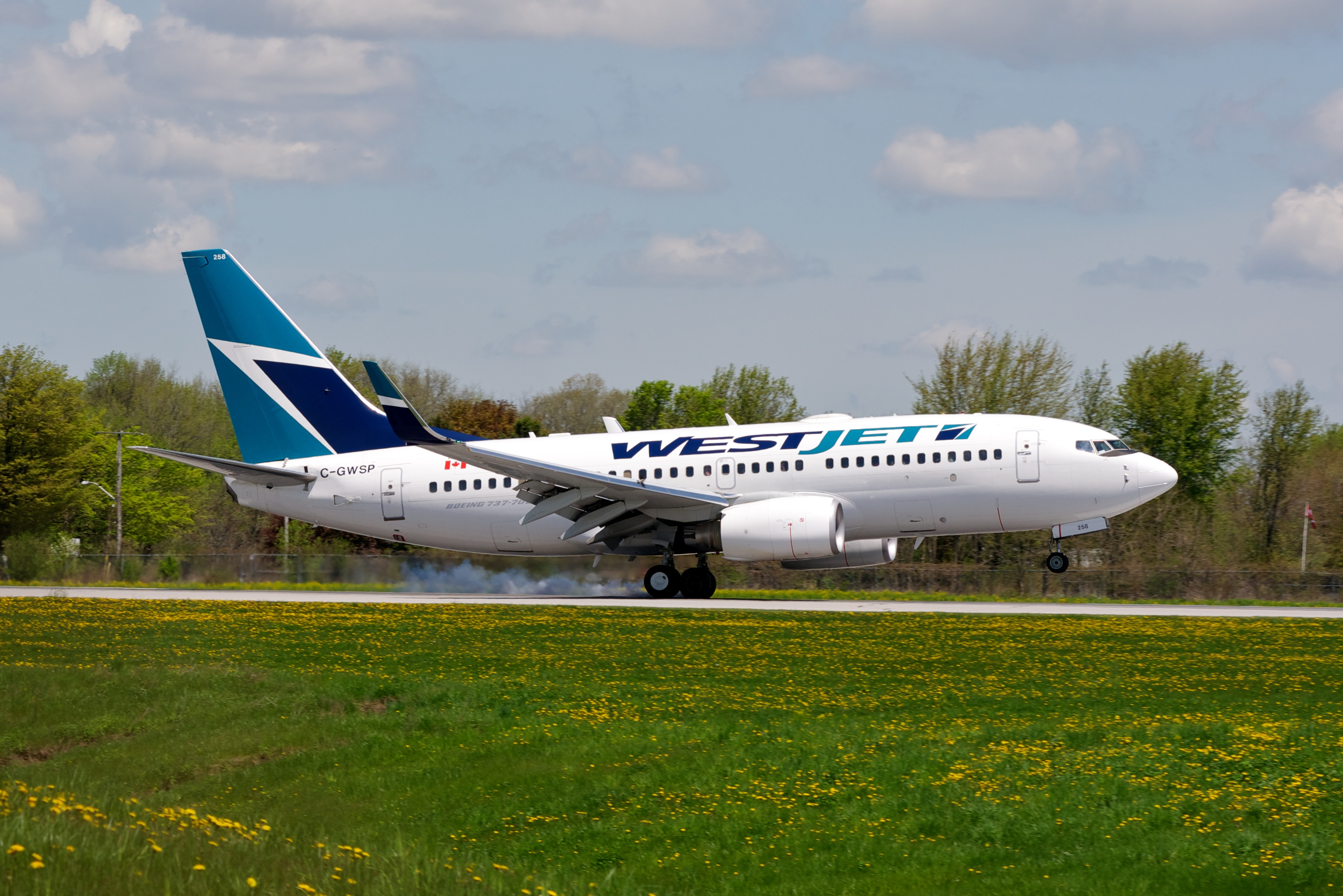 Touching down at Hamilton Airport.